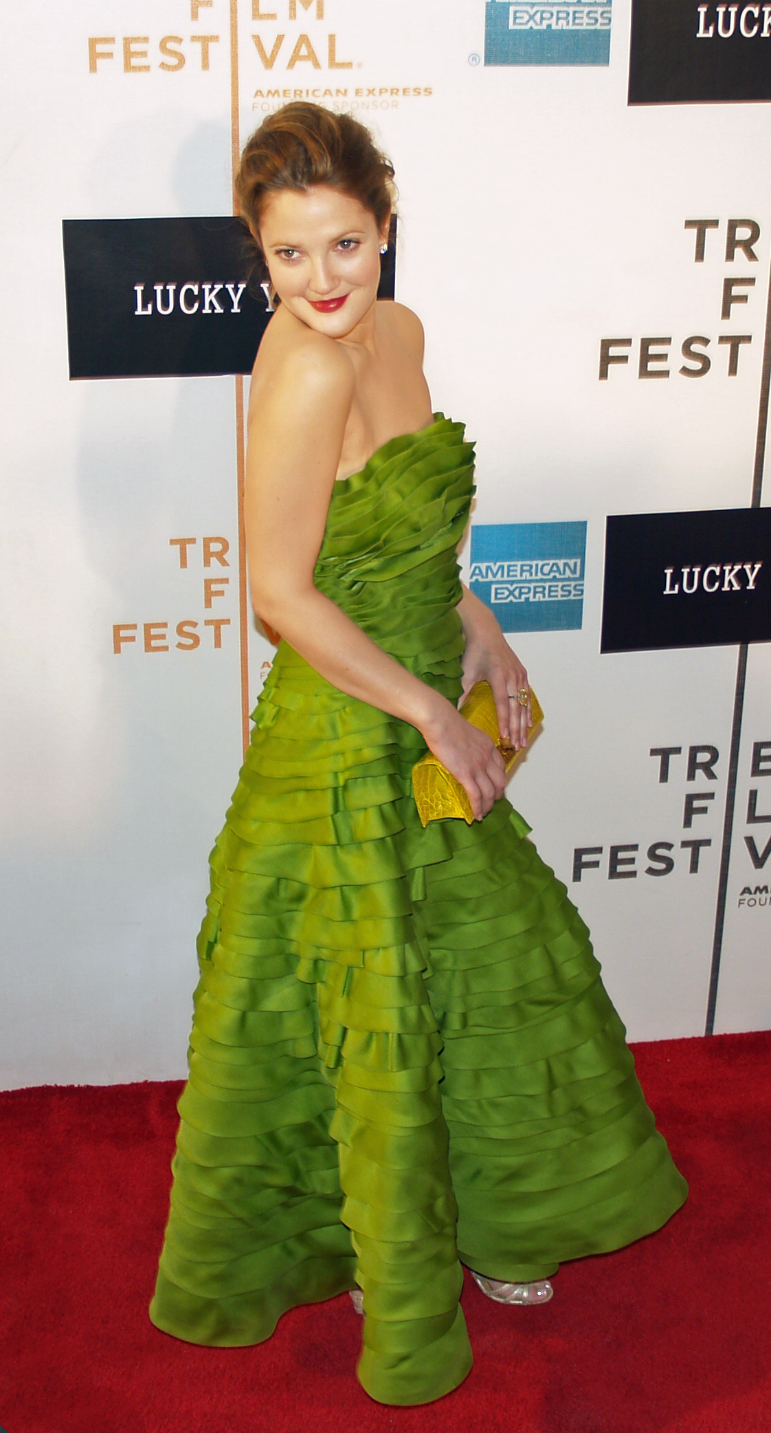 Drew Barrymore at the 2007 Tribeca Film Festival